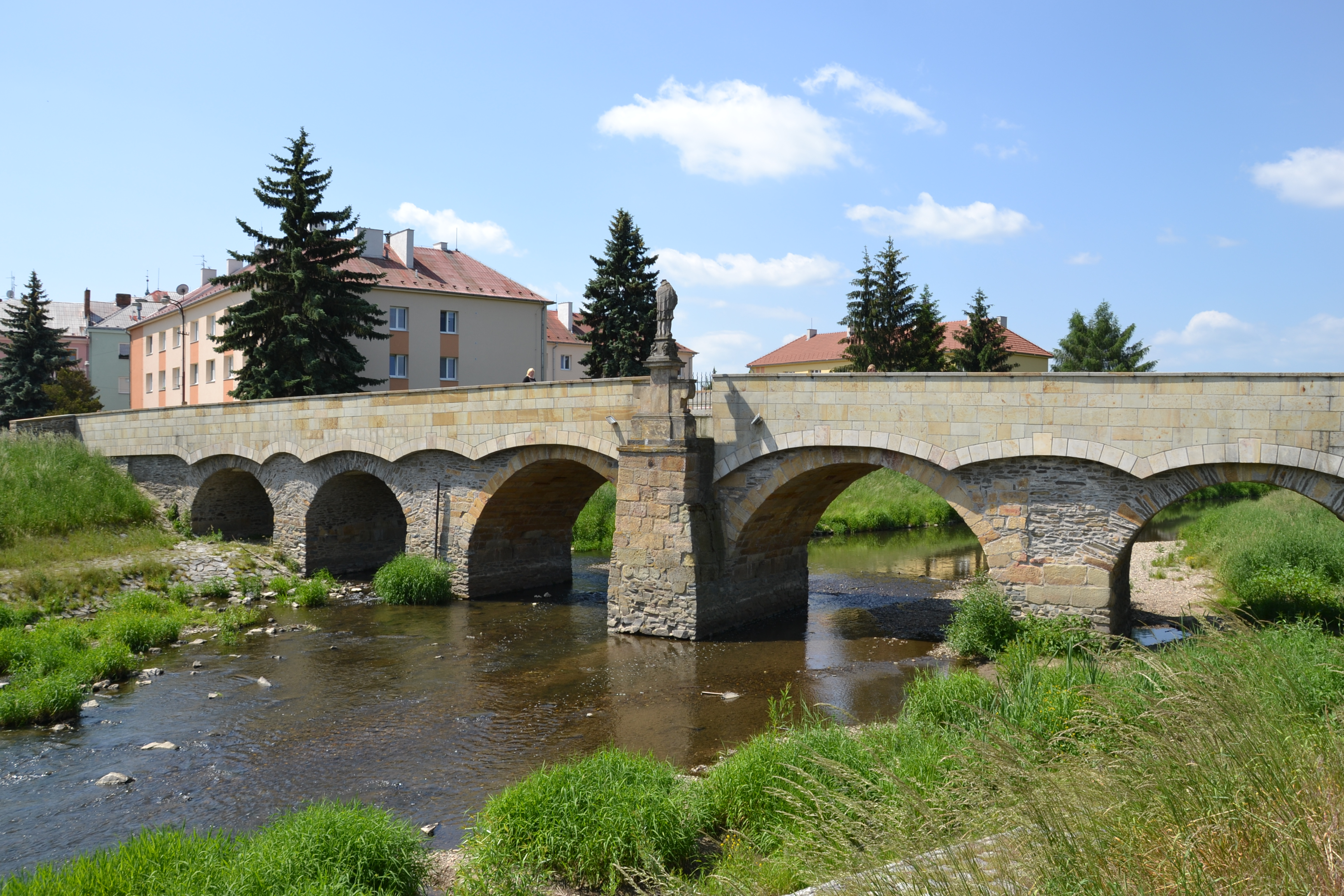 Svatojánský bridge in Litovel (Littau), Moravia